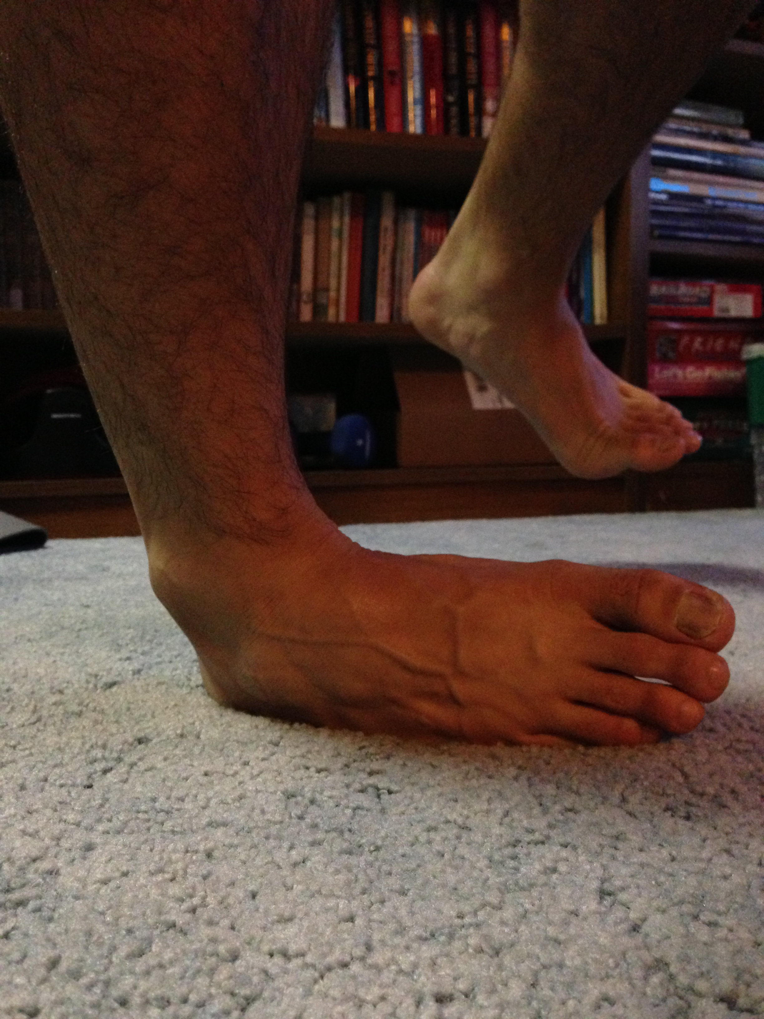 Ankle sprain caused by inversion